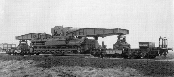 Karl-Gerät suspended from its rail transporter